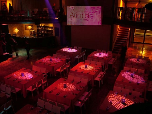 Events Hall in Israel, before the arrival of guests - Orit Yahel Events & Parties